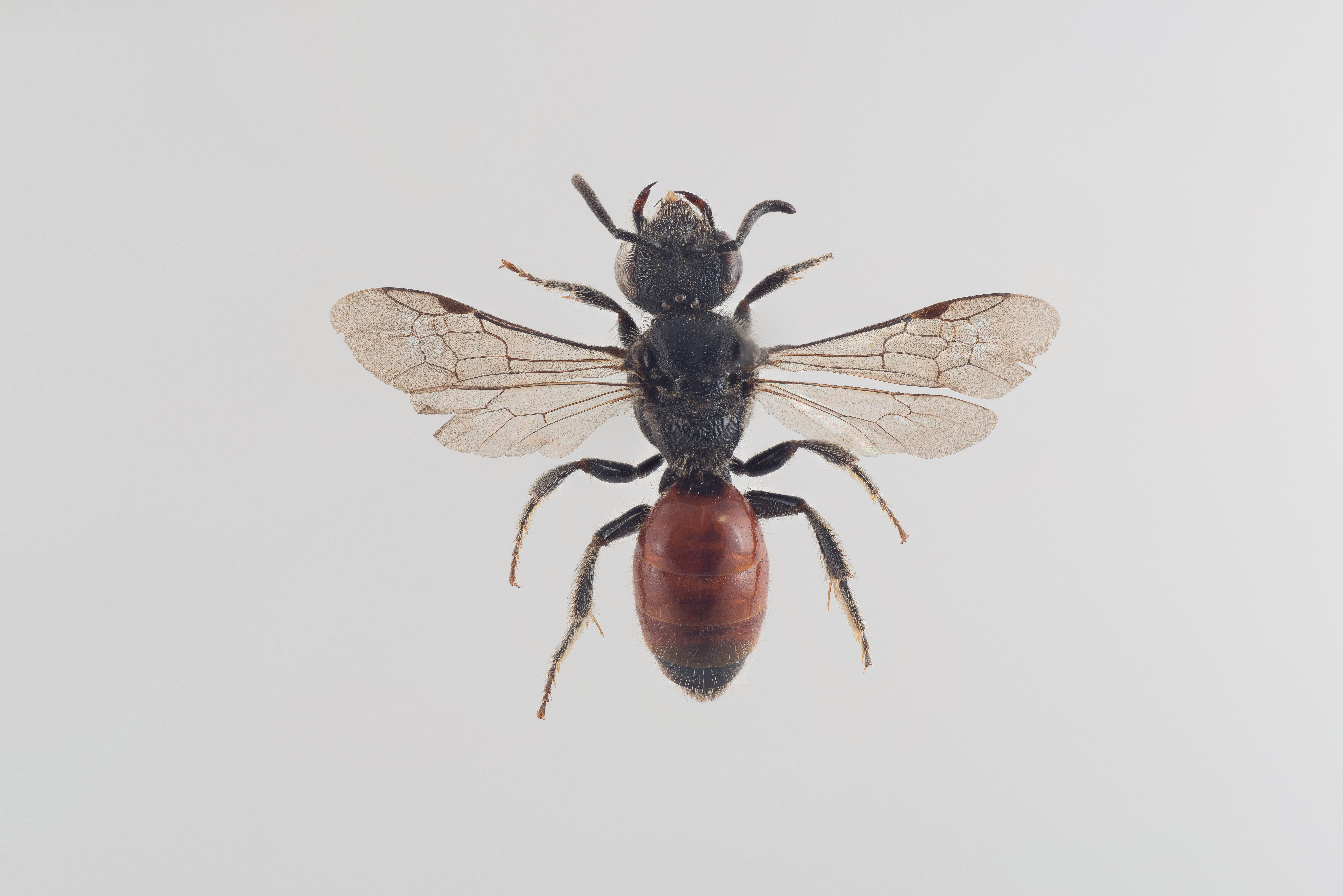 Sphecodes ephippius